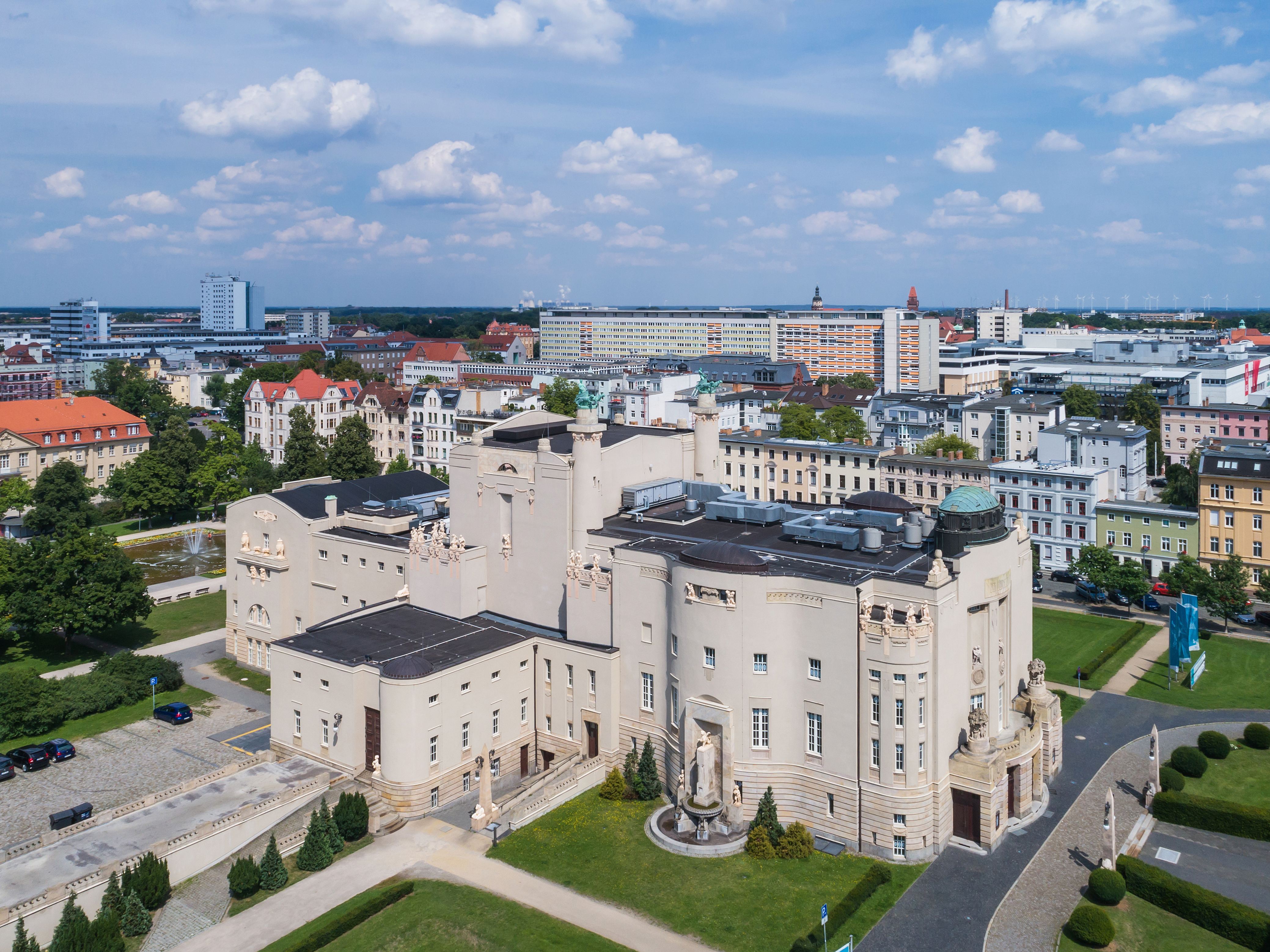 Building of the Staatstheater in Cottbus (Germany)